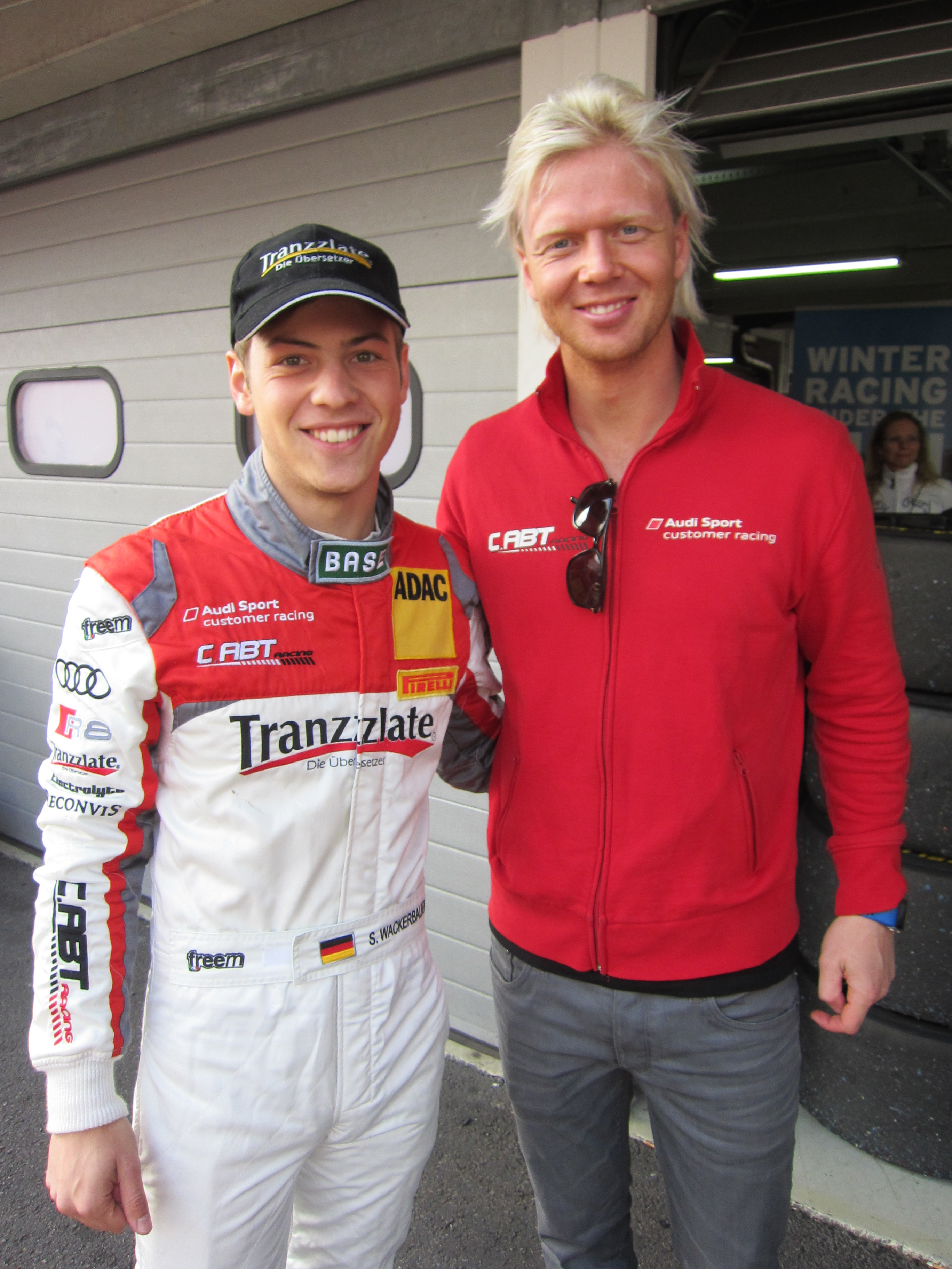 Stefan Wackerbauer (left) and Nicki Thiim: the photo was taken during 2015's ADAC GT Masters race weekend at Hockenheim